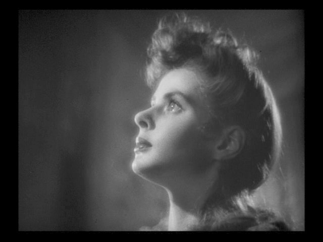 This screenshot shows Ingrid Bergman looking up at Hyde.